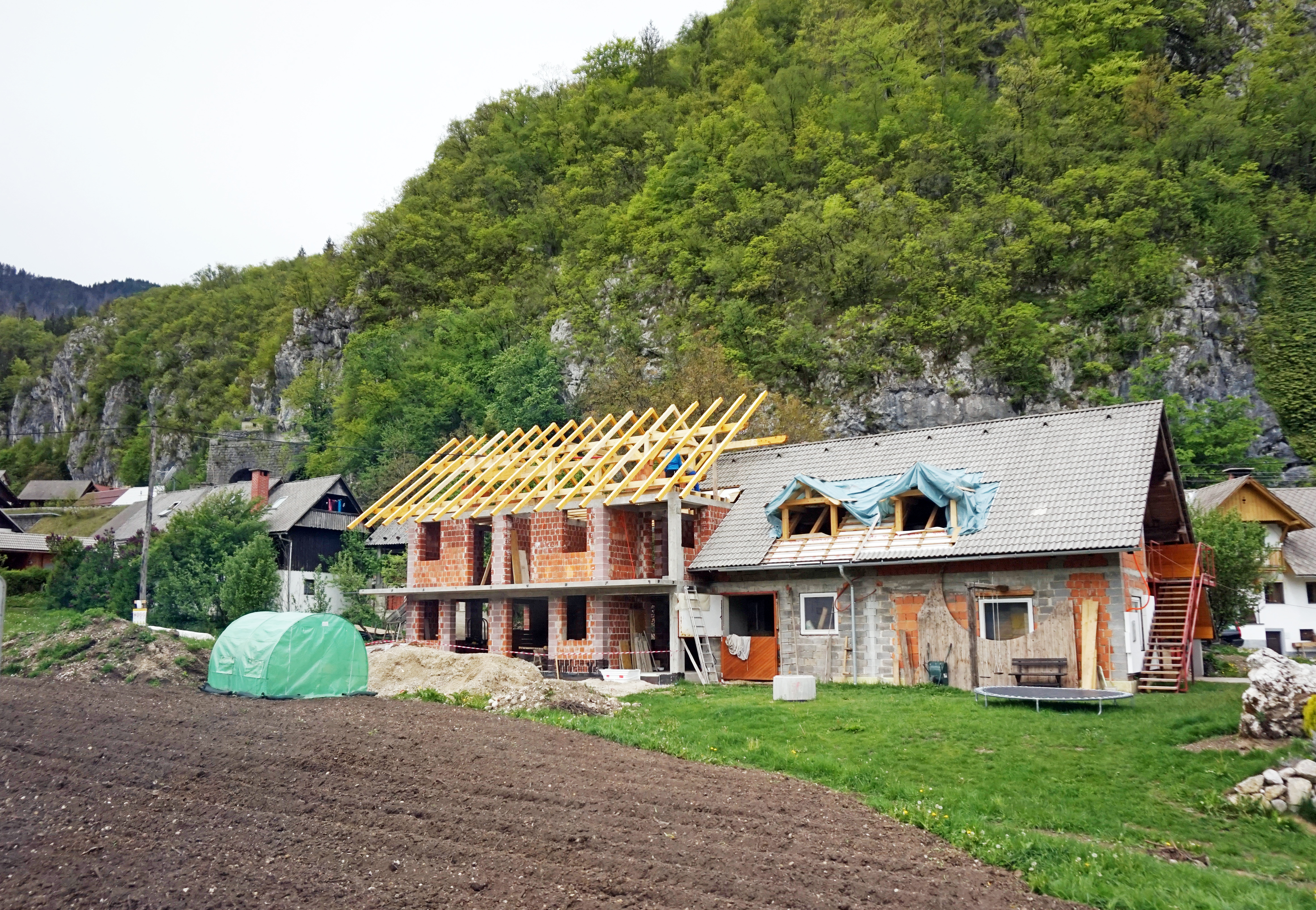 Building construction in Bohinjska Bela, Slovenia. This photograph was taken with a Sony Alpha a5000.